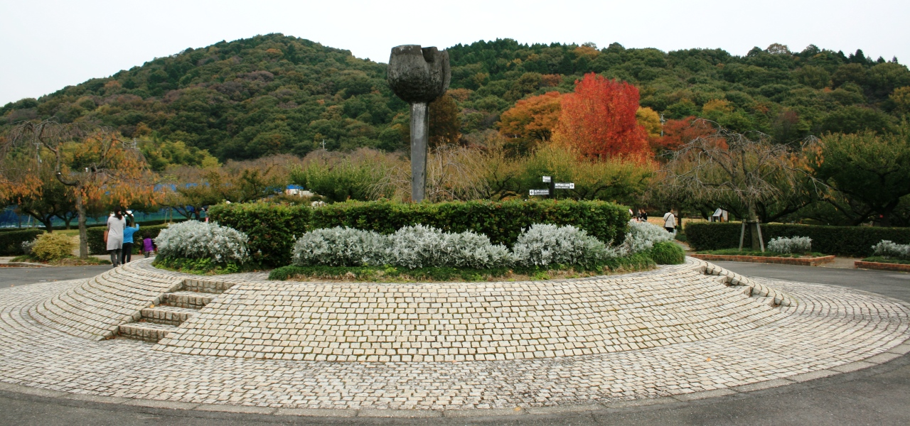 Fruit_park_Togokusan_2010-11-14